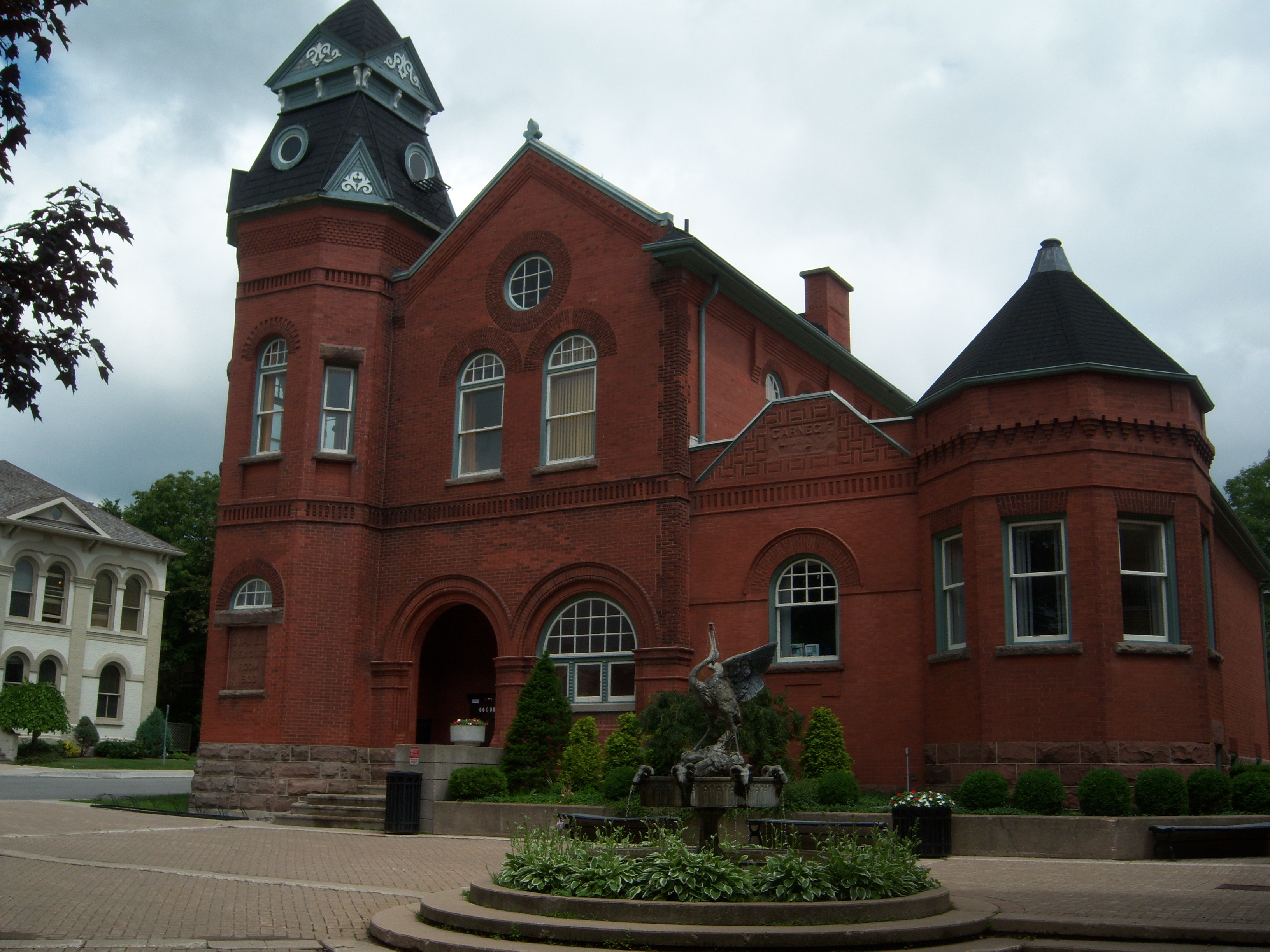 Clinton Public Library. Original building is to the left, Carnegie Foundation funded addition to the right.